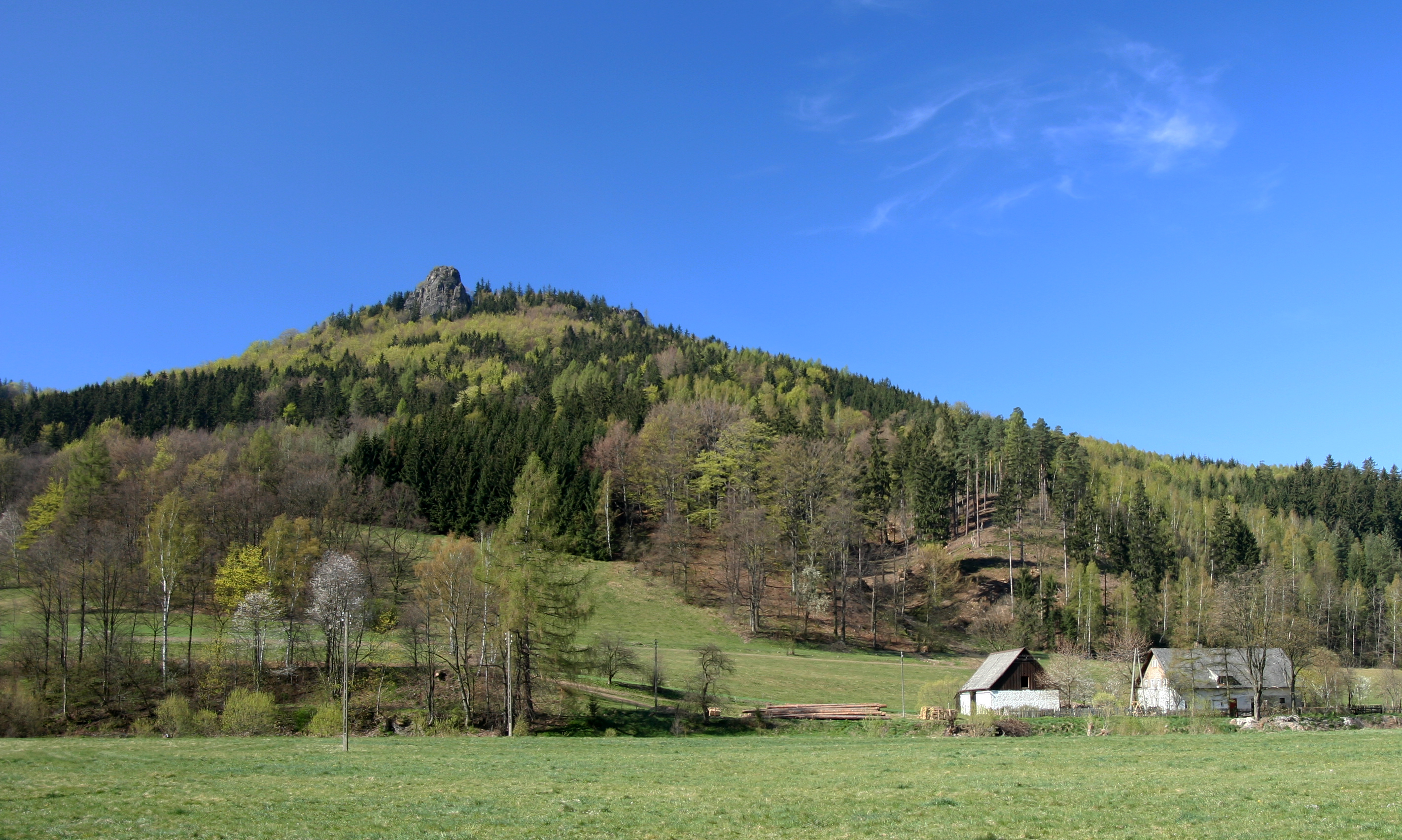 Sokolik in Rudawy Janowickie, view from Trzcińsko, Lower Silesia, Poland.